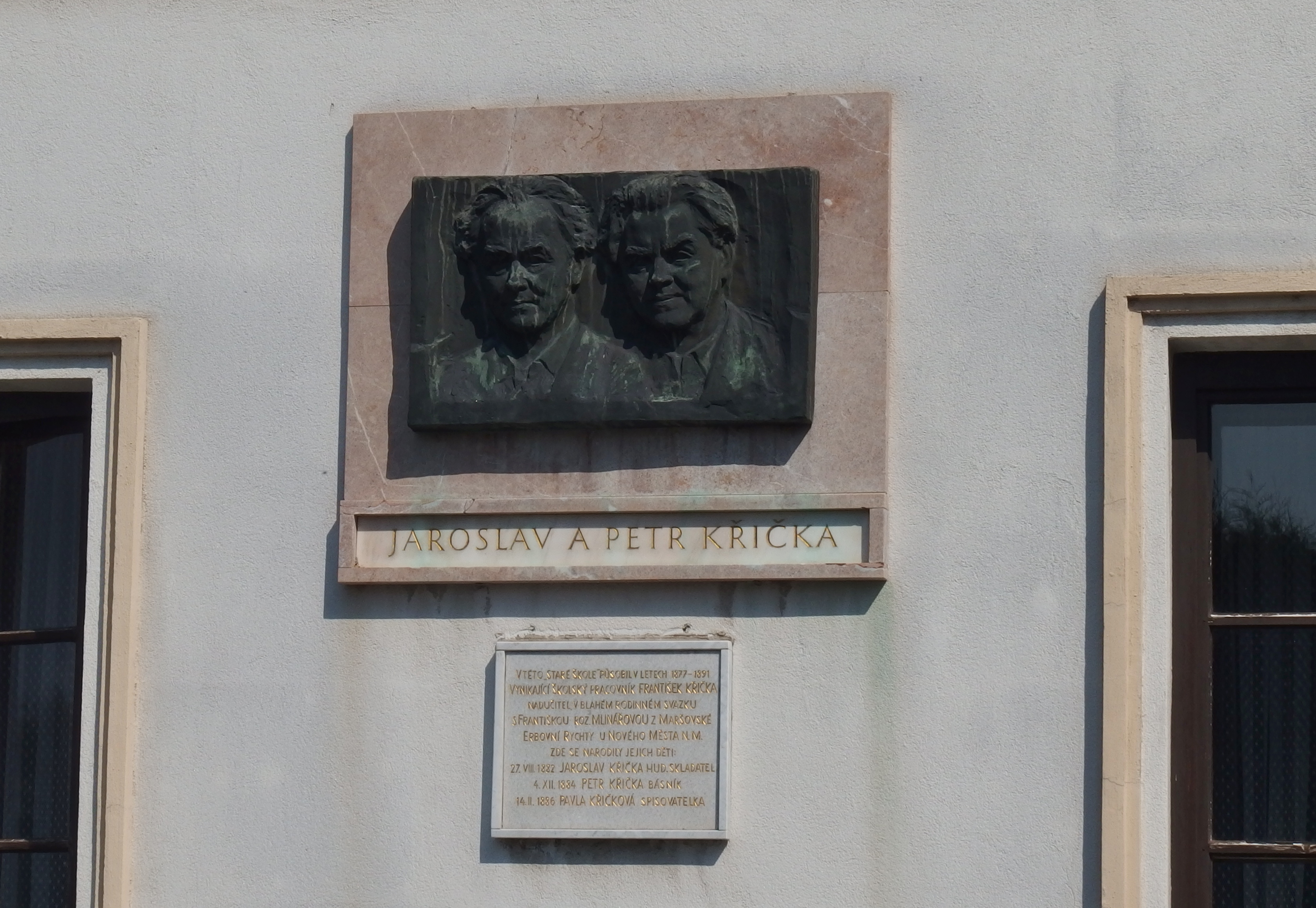 Kelč, Vsetín District, Czech Republic.